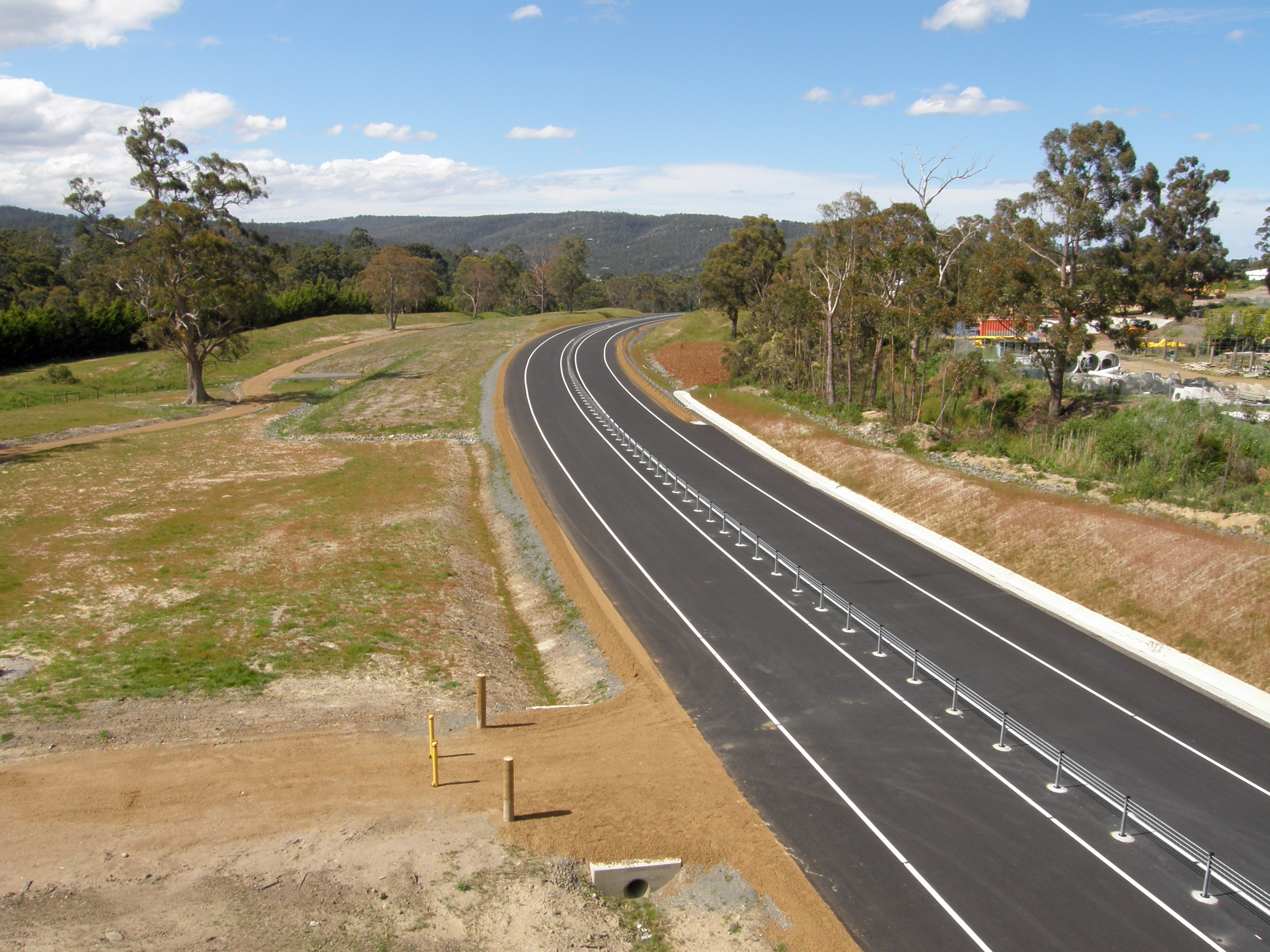 Facing North: Taken from the Spring Farm Road overpass, the near complete Kingston Bypass.